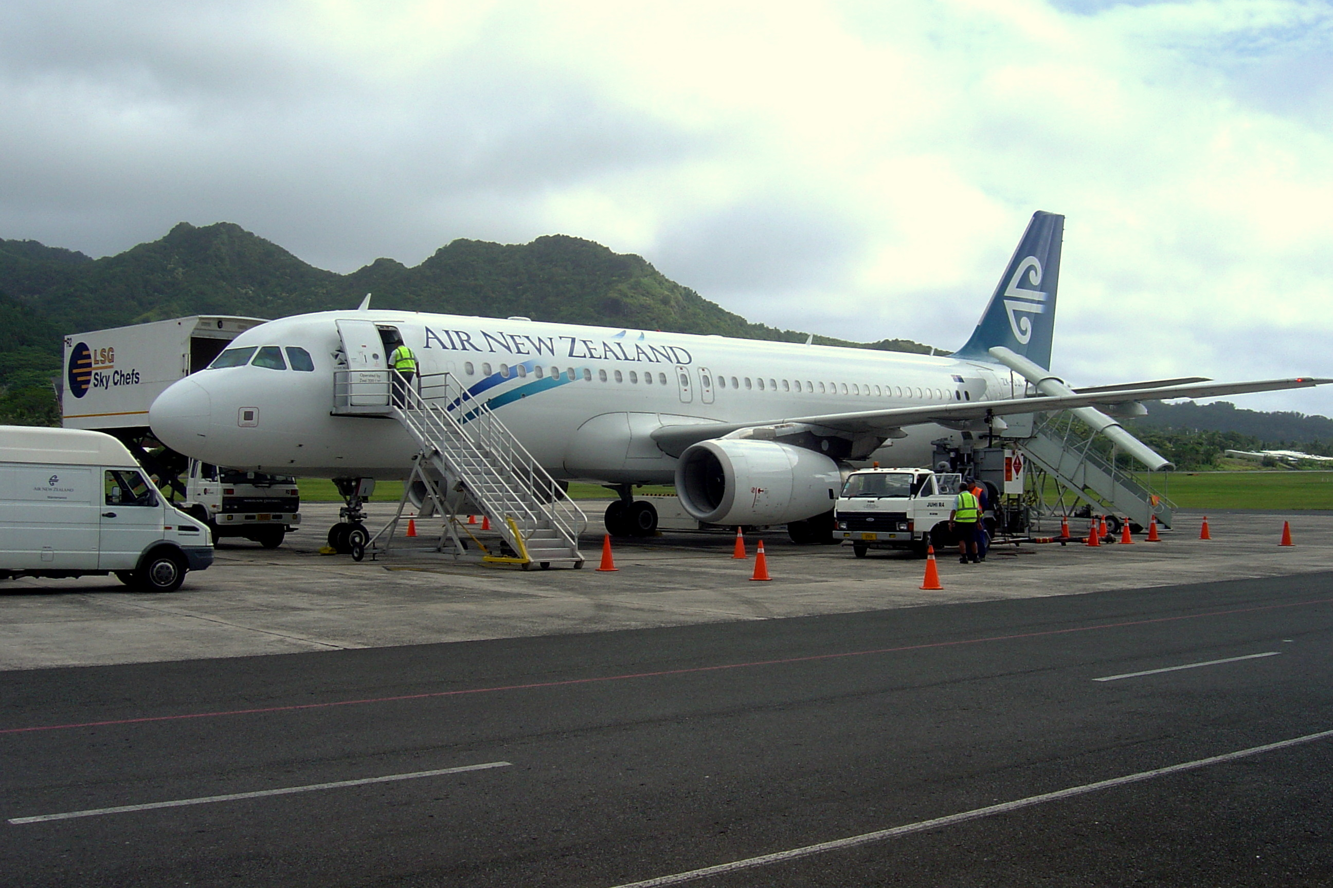 Air New Zealand Airbus A320 on the tarmac at Rarotonga awaiting passengers